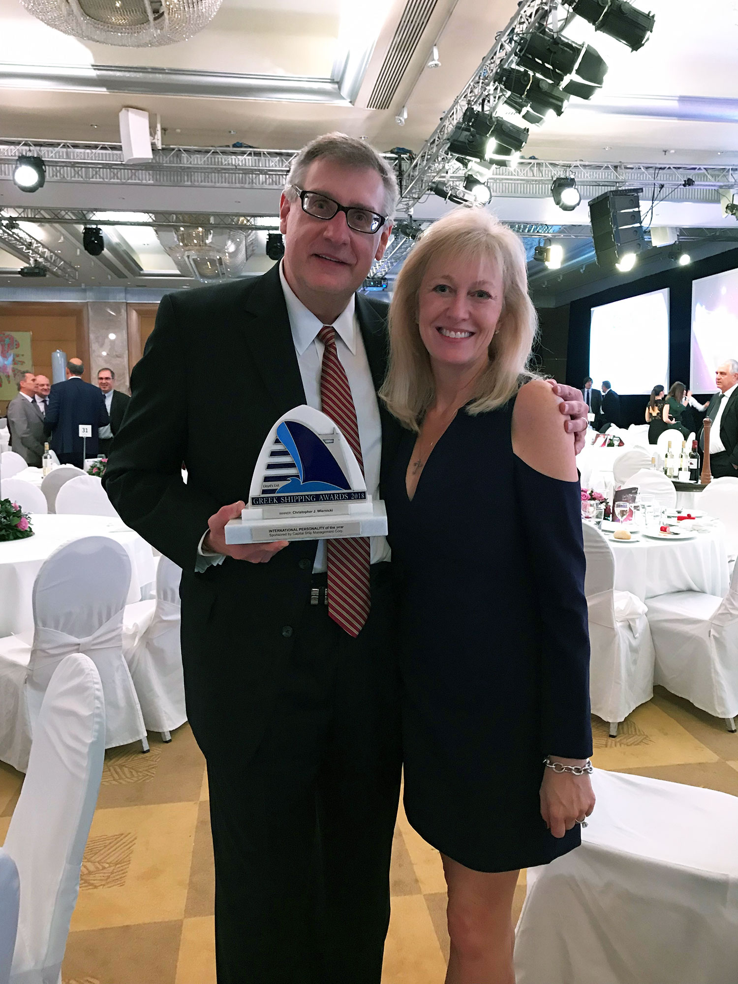 ABS Chairman President and CEO Christopher J. Wiernicki at the Lloyd's List Greek Shipping Awards in 2018.